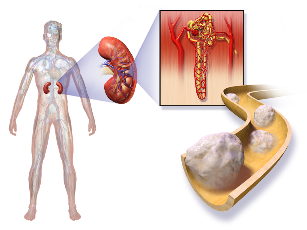 A medical illustration depicting